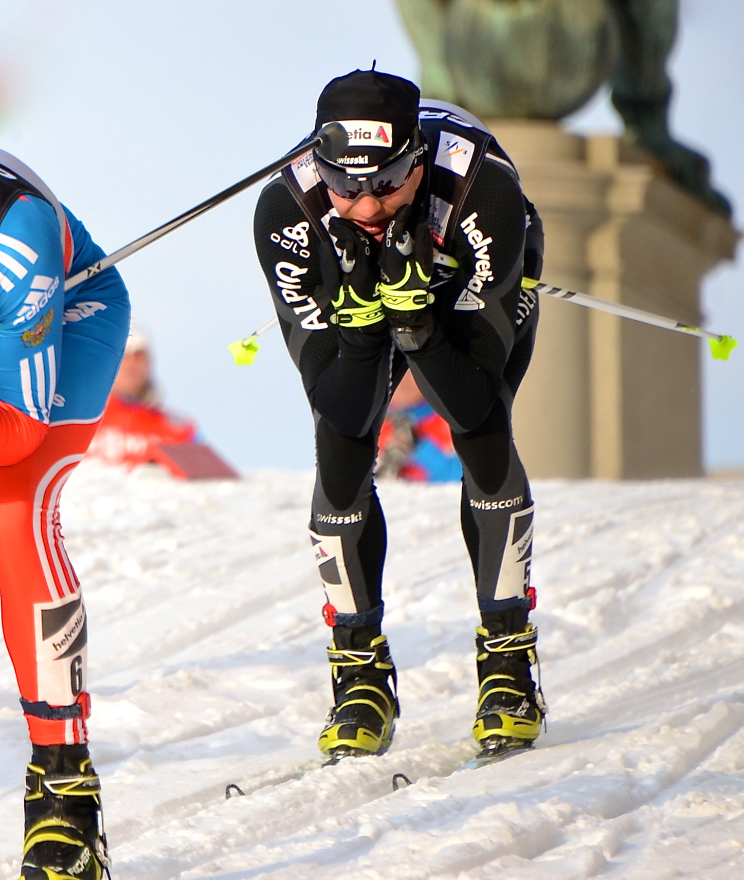 Dario Cologna at Royal Palace Sprint in Stockholm March 20, 2013